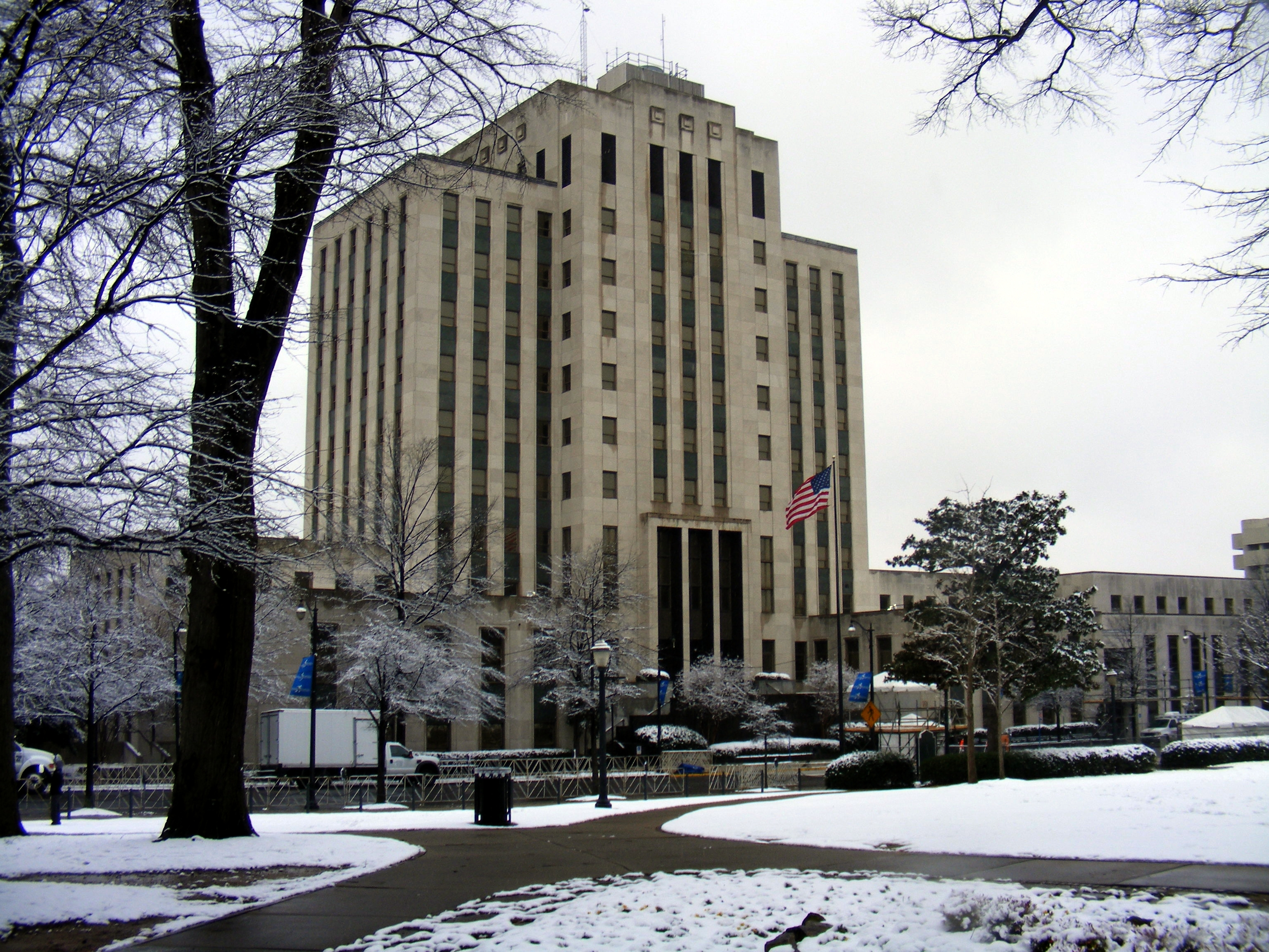 Birmingham City Hall, Birmingham, Alabama